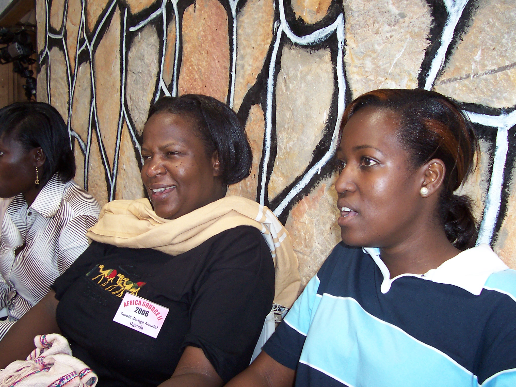 Smiling faces from Africa. Africa Source 2, January 2006, Kalangala island on Lake Victoria. Uganda. Photo by Frederick "FN" Noronha, GFDLed by the photographer.